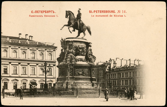 Saint Petersburg (Russia), Saint Isaac's Square.